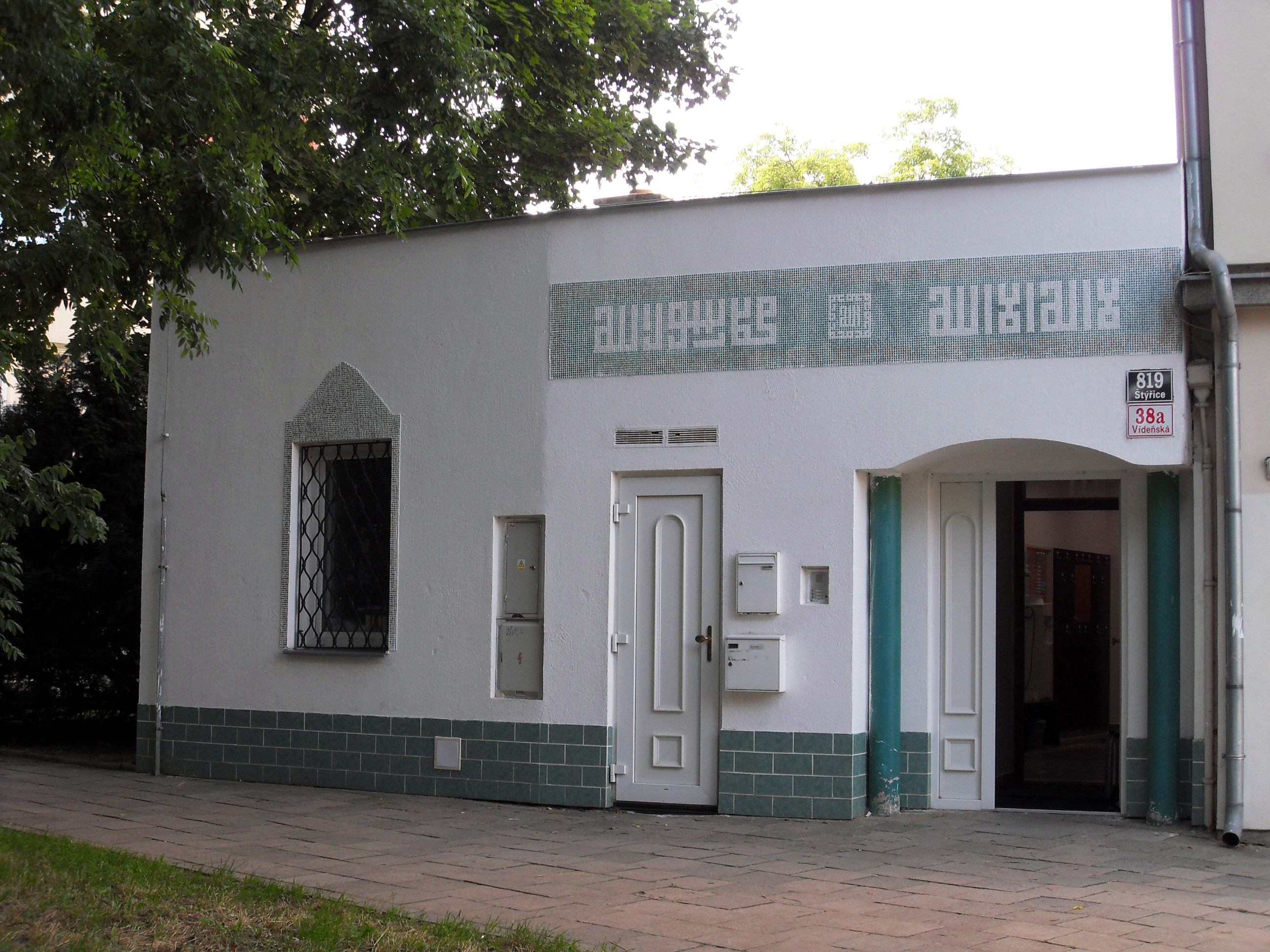 Mosque, Brno, Czech Republic